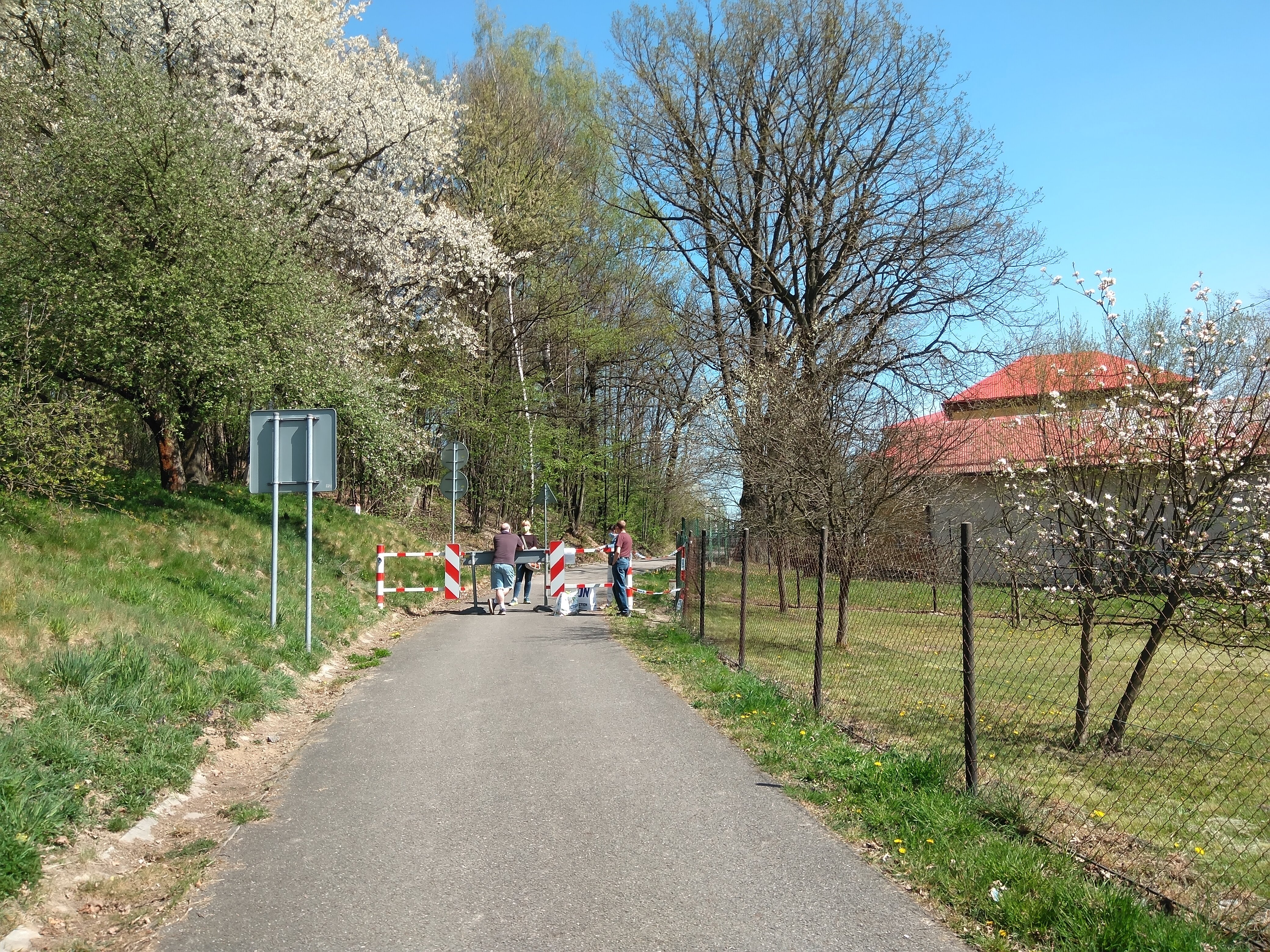 Families talking through a border barrier at the closed border between Dolní Marklovice and Marklowice Górne during COVID-19 pandemic.